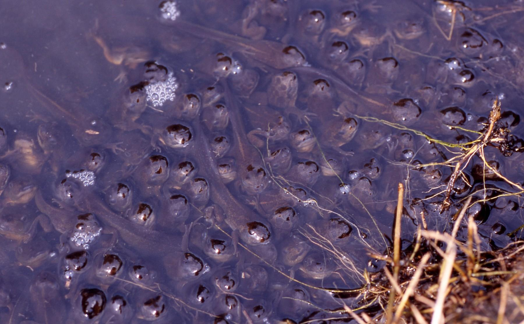 Larvae of the Common Spadefoot Toad, Pelobates fuscus, short before leaving the water collectively.